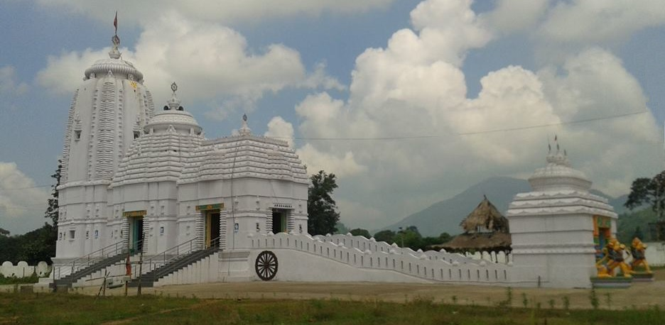 Beautiful Jagannath Temple of Durgi Village